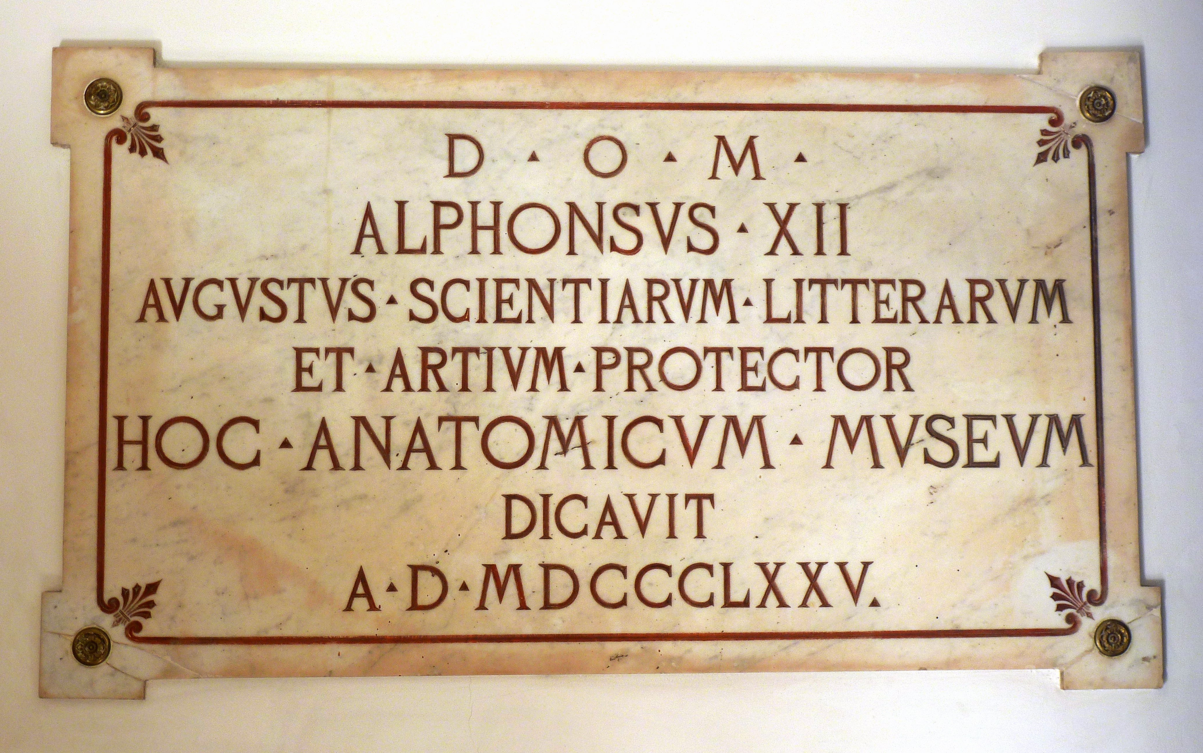 Opening stele of the Museo Nacional de Antropología (National Museum of Anthropology), Madrid, Spain